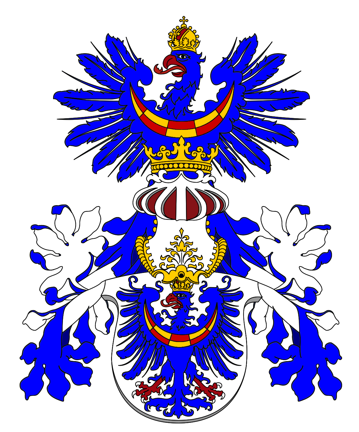 Based on historical picture of coat of arms of Carniola. Made by me using Macromedia Fireworks and Adobe Photoshop.